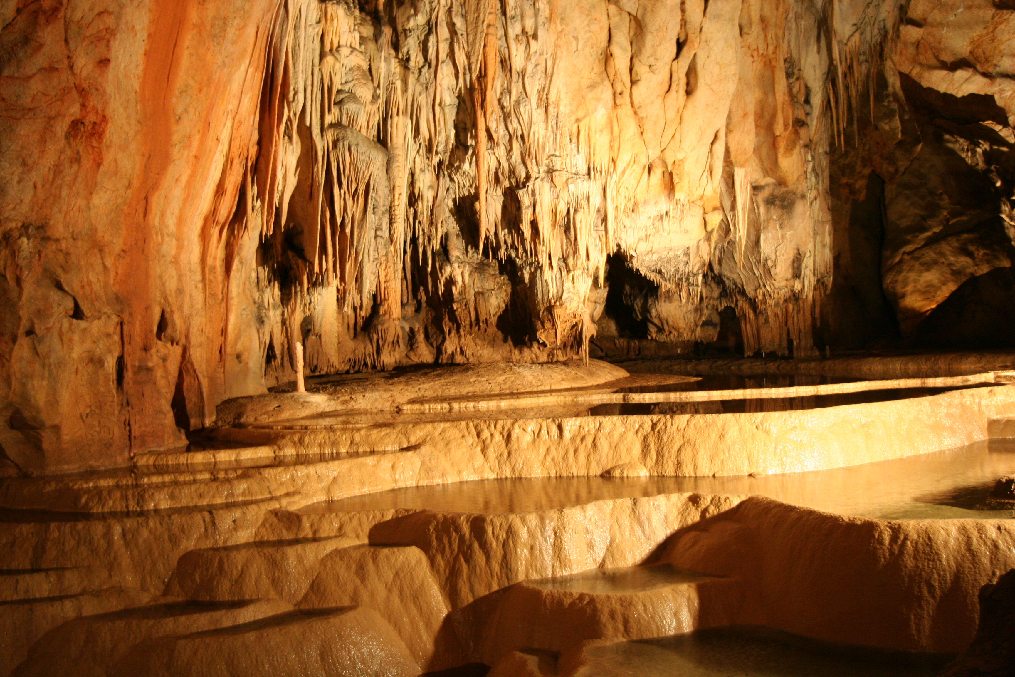 Domica Cave, Slovakia. Taking this photo was made possible through the financial support of Wikimedia Polska.